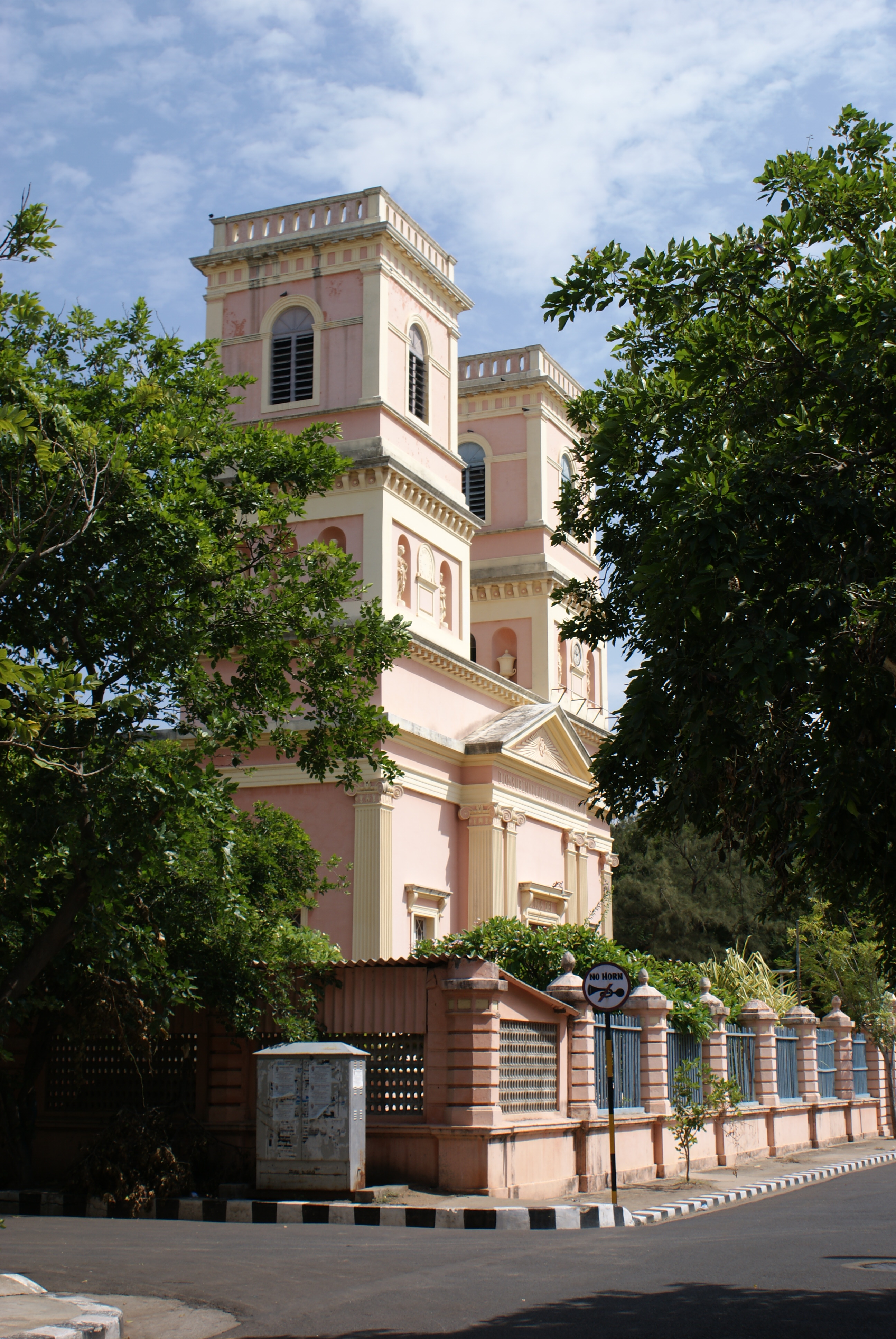 Our Lady of Angels Church, Puducherry